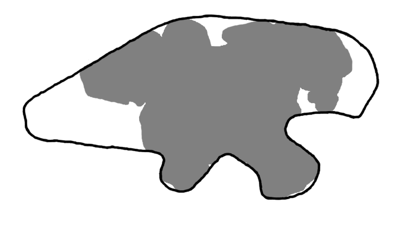 Reconstruction of the ilium of Metriacanthosaurus parker, known material in grey.